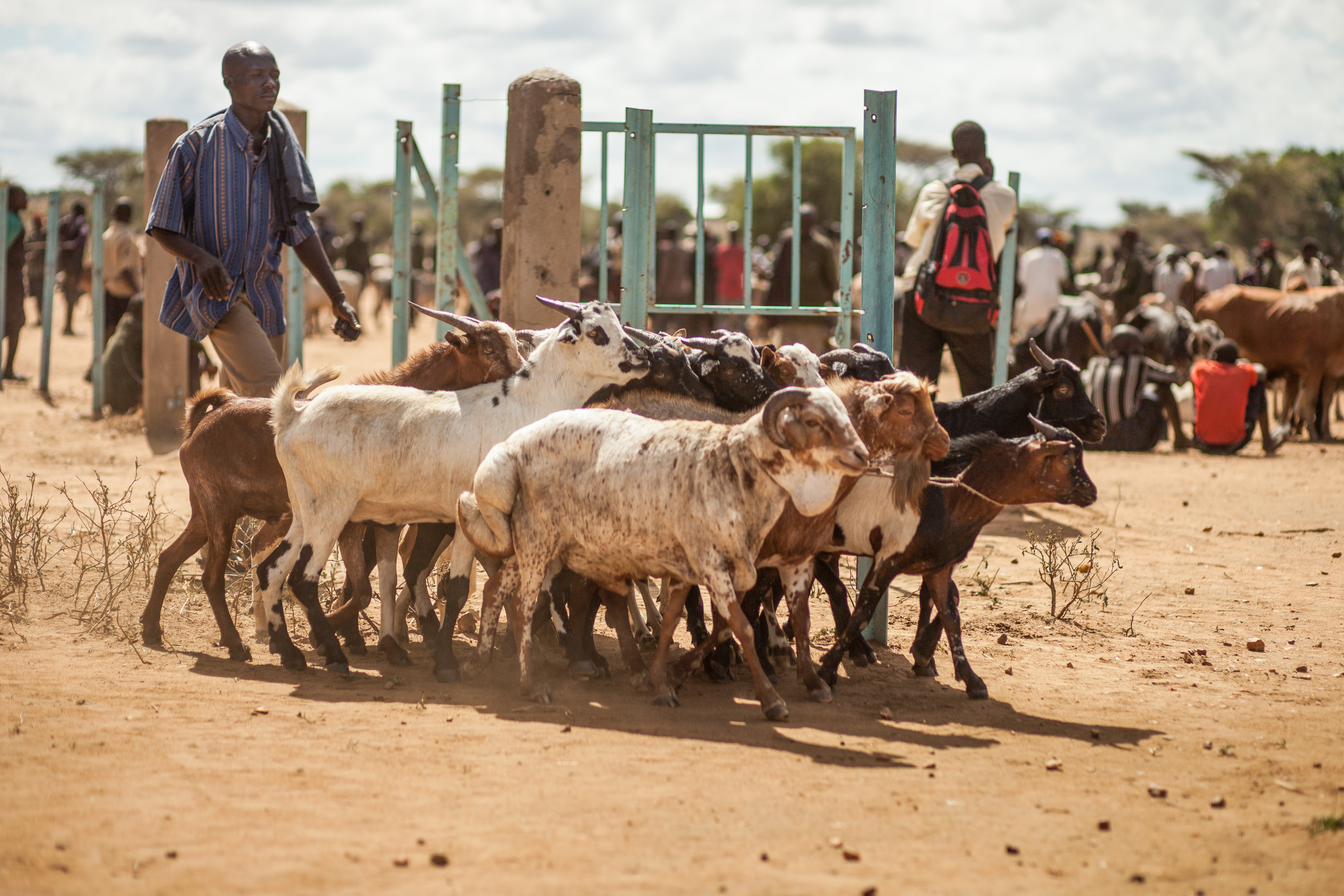 This is an image of "African people at work" from Uganda